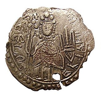 Reverse of srebrenik of Vladimir the Great now in the Odessa Numismatics Museum.